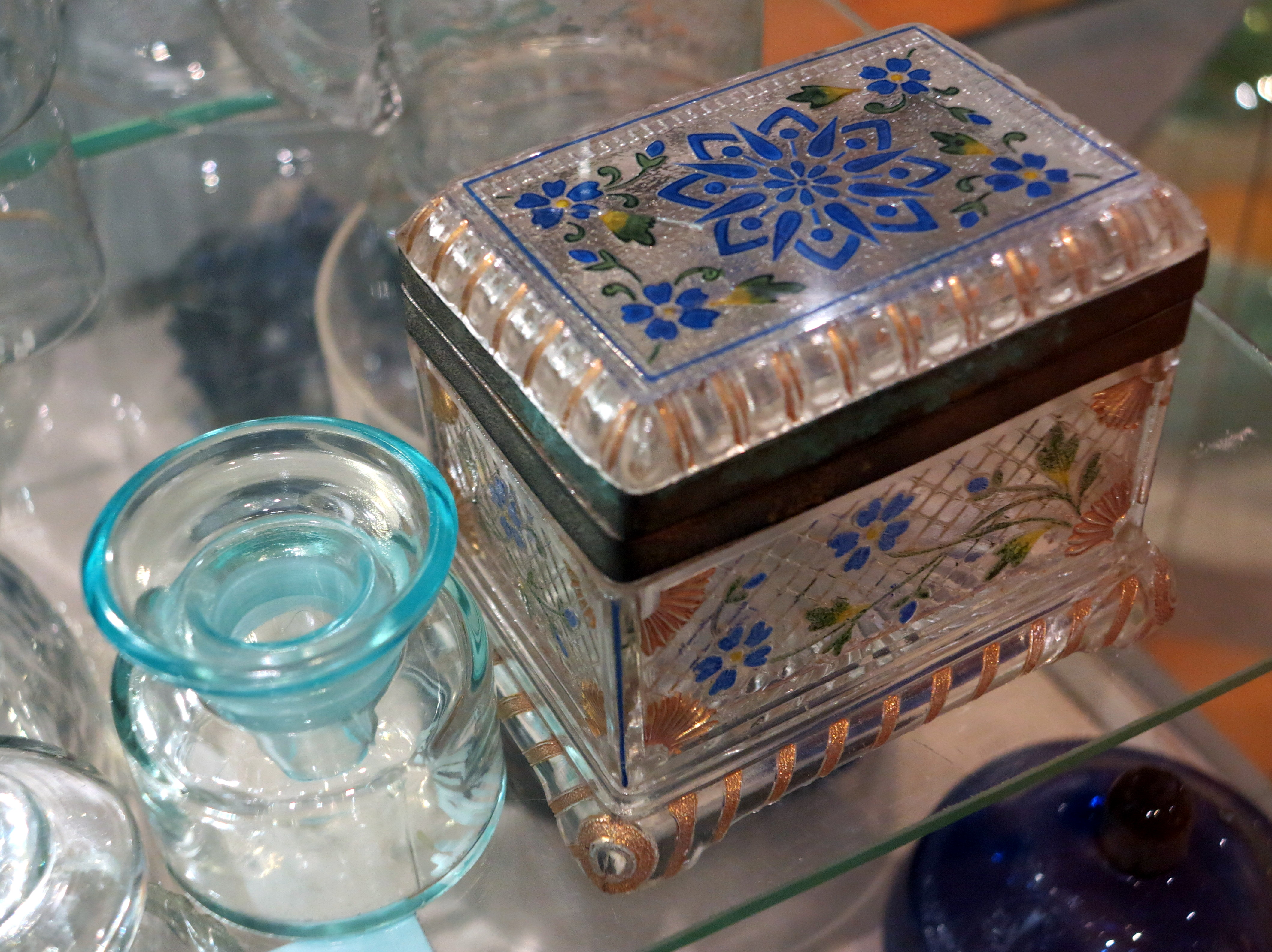 Glass products, presumably from the village glassblower Tscherniheim, a place of Forest glass production from 1621 to 1879 in the municipality Hermagor-Pressegger See in Carinthia / Austria / EU. Exhibits at the Museum of Folk Culture in Spittal an der Drau. The assignment of the sugar bowl from the Tscherniheim is grooved strong, is not assured. It is attributed more to the glass factory of Josef Schreiber & nephew in Rapotin / Reitdorf in 1885.